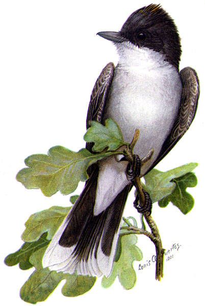 Eastern Kingbird, Tyrannus tyrannus, chromolithograph after painting (watercolor or acrylic)